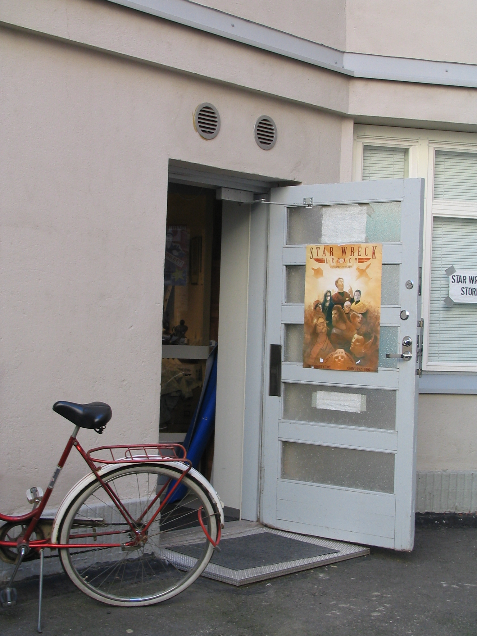 Mystical door of Star Wreck store and office of Energia production in Tampere, Finland.